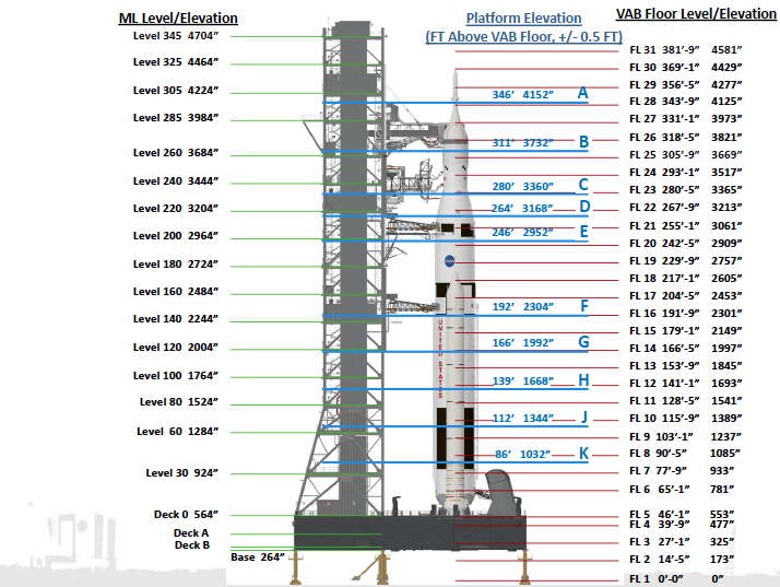 This diagram shows the 10 levels of work platforms that will surround NASA's Space Launch System rocket and Orion spacecraft during processing and stacking on the mobile launcher in the Vehicle Assembly Building at Kennedy Space Center.